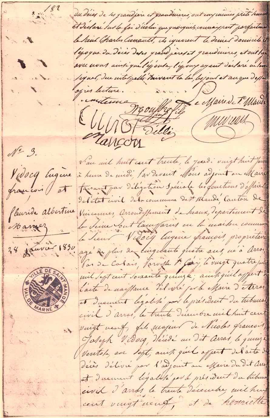 Page 1 of the marriage certificate of Eugène François Vidocq and Fleuride-Albertine Maniez, 28th January 1830 in Saint-Mandé